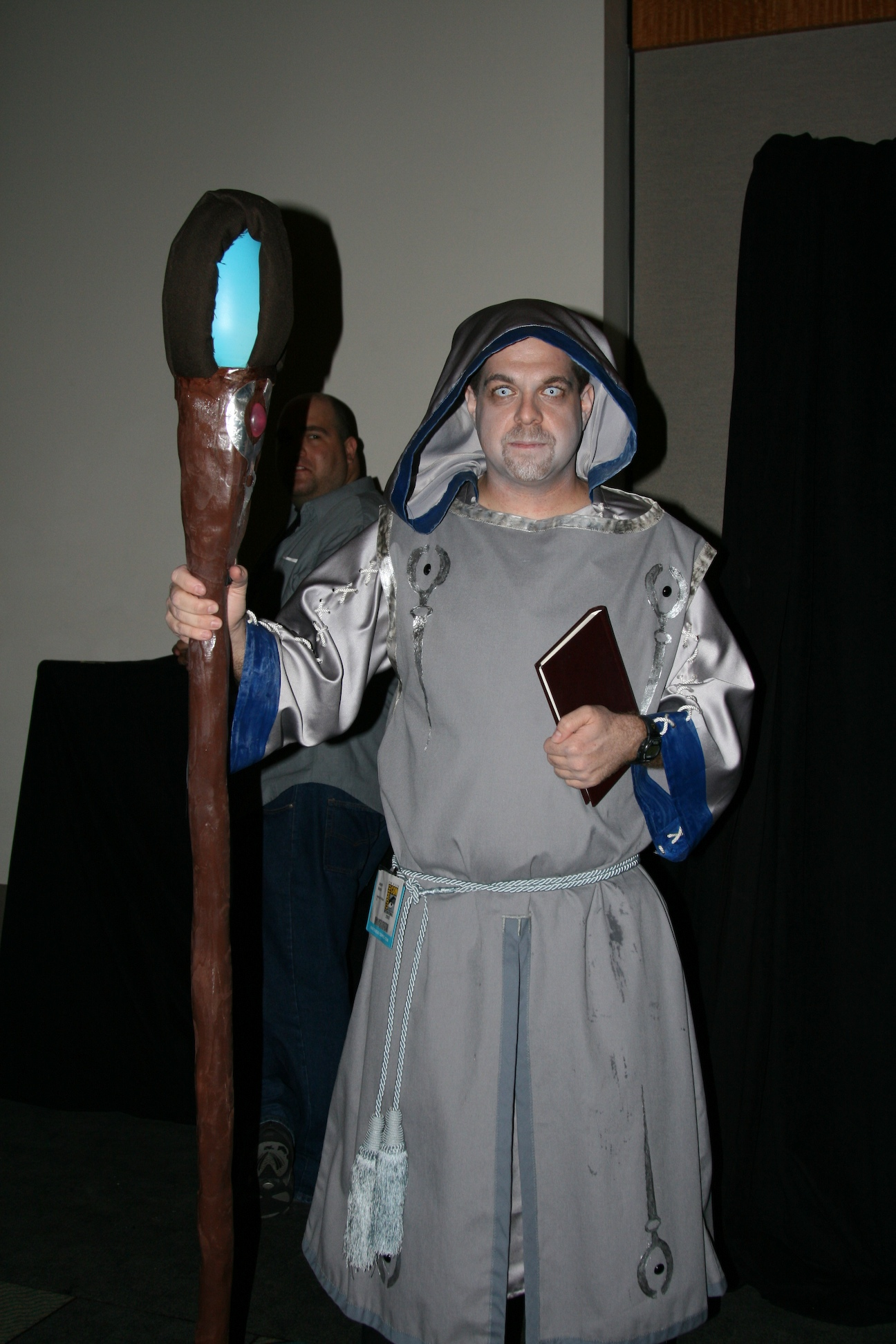 An Ori (villainous race from SG1) wandering the aisle during the SG1 panel. Good thing nobody had an MP5 ot zat gun.